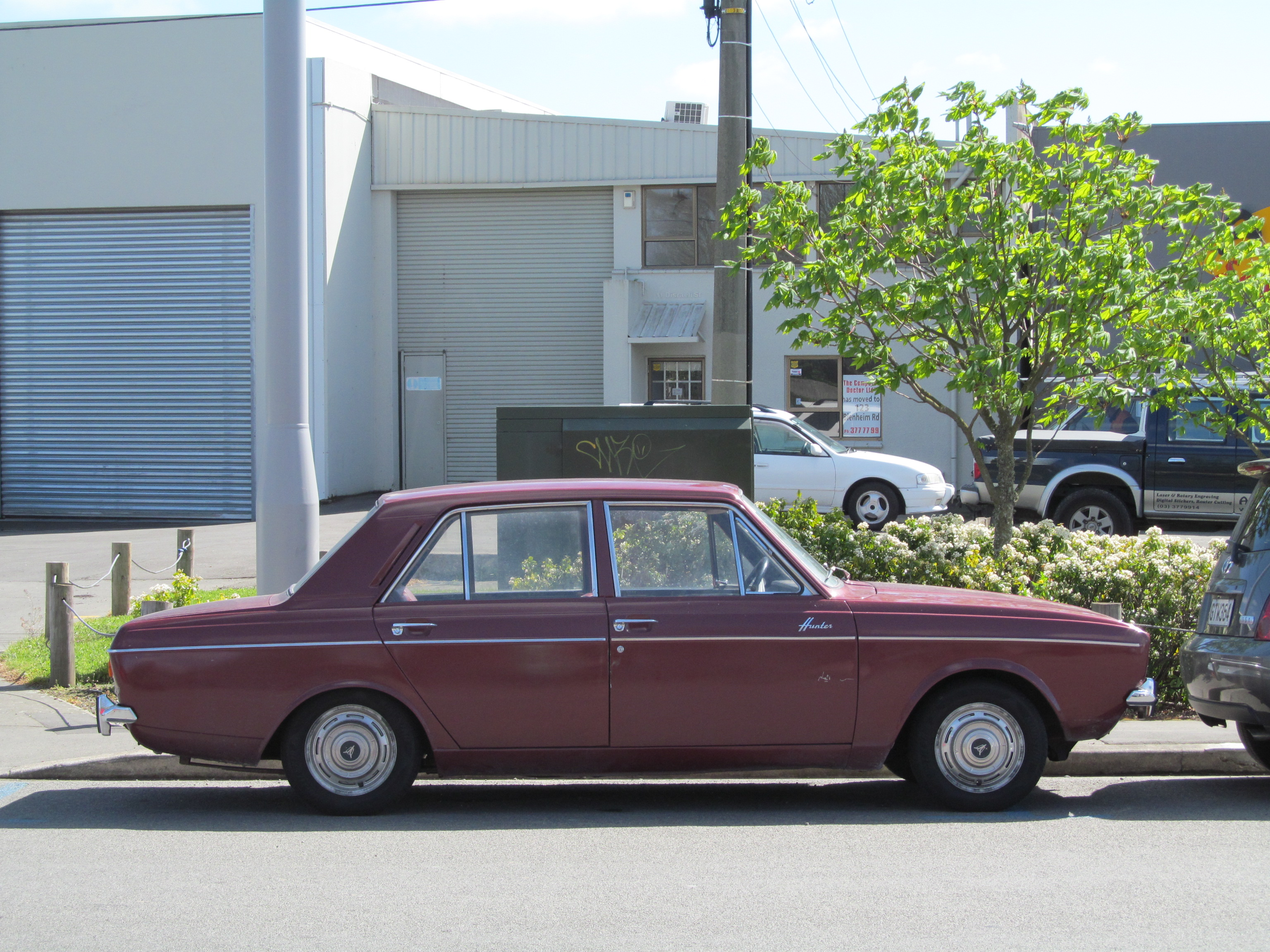 This Hunter had quite a mean-looking stance - as suggested below, has it been dropped a bit?